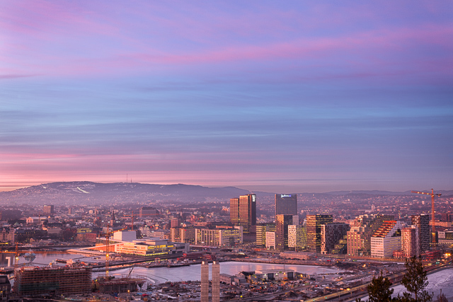 The sun is setting on Oslo. Seen from Ekebergparken.